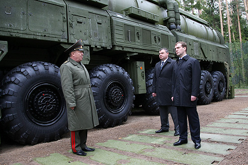 TEIKOVO, IVANOVO REGION. At the 54th Division of the Strategic Missile Forces. With Nikolai Solovtsov, the commander of the Strategic Missile Forces, and Minister of Defense Anatoly Serdyukov.